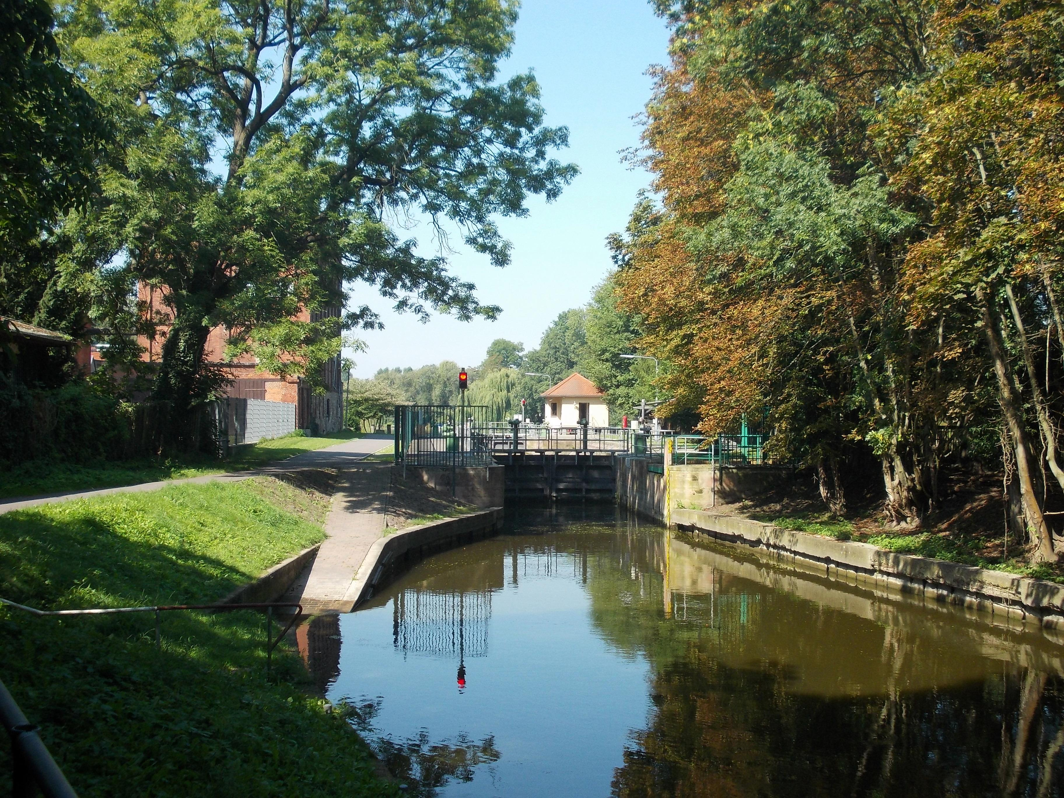 Beuditz Lock on the Saale river in Weissenfels (district: Burgenlandkreis, Saxony-Anhalt)